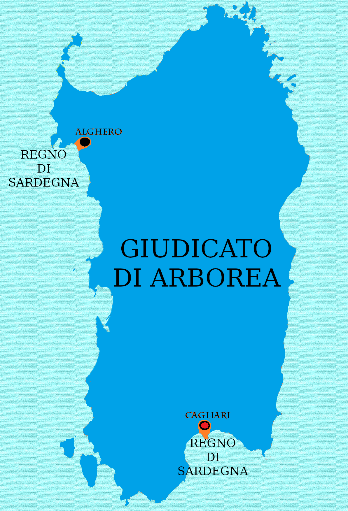 Political situation in Sardinia between 1368-1388 and 1392-1409